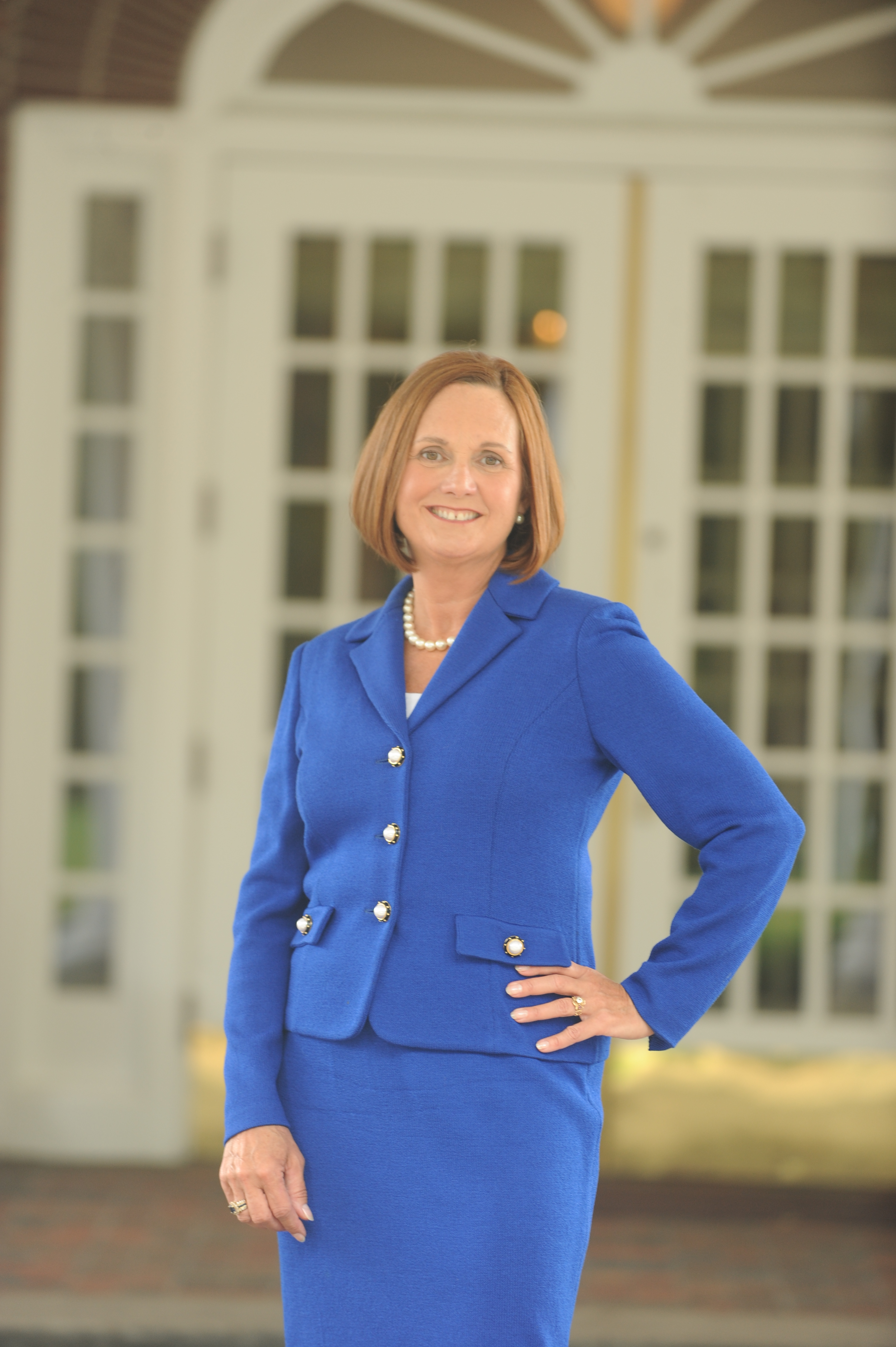 Dr. Betsy Vogel Boze, blue suit, July 2009